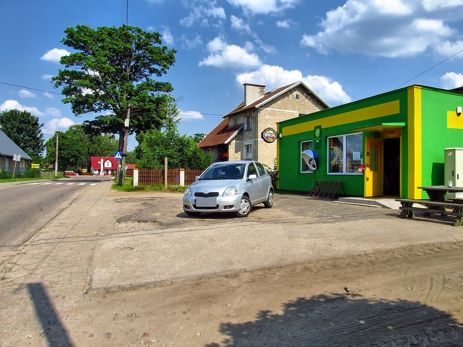 Store in Borsk